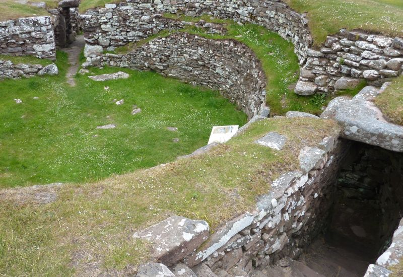 Carn Liath, a broch in Sutherland, Scotland